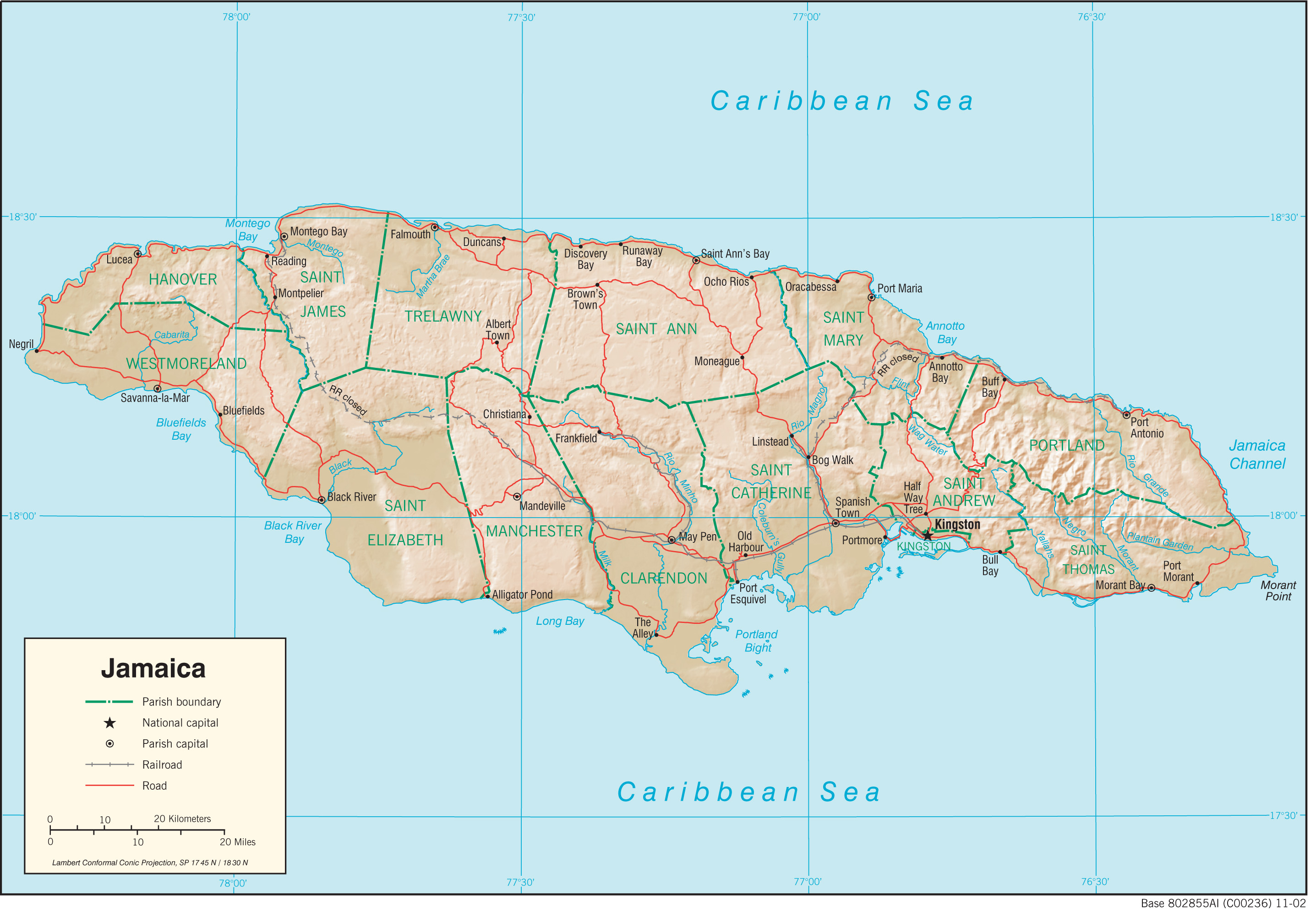 Topographic map of Jamaica (shaded relief), 2002.